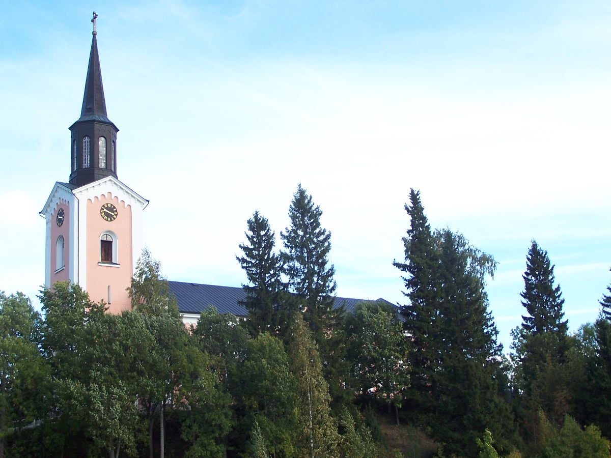 Hamrånge church, Gävle, Sweden